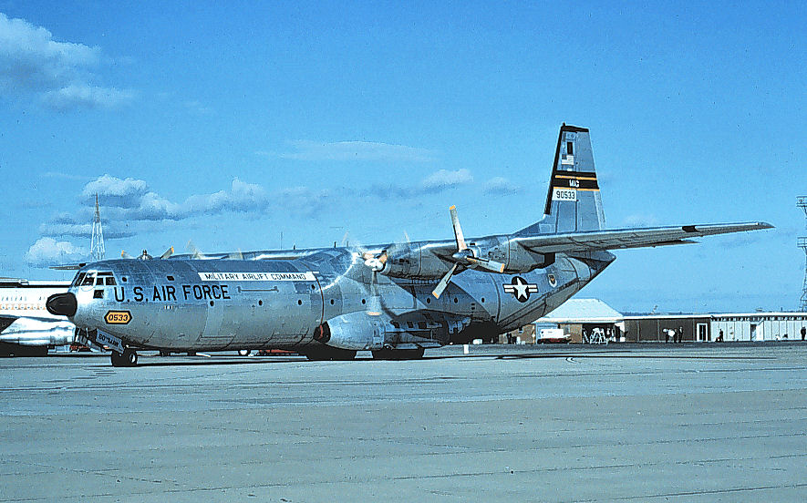 A U.S. Air Force Douglas C-133B-DL Cargomaster (s/n 59-0533) of the 60th Military Airlift Wing, in 1967. This aircraft was retired by the USAF on 2 August 1971. It was later sold to a civilian customer with the registration N77152, and finally sold to the Cargomaster Corporation of Anchorage, Alaska (USA) with the registration "N133B". In 2000 it was scrapped at Anchorage.